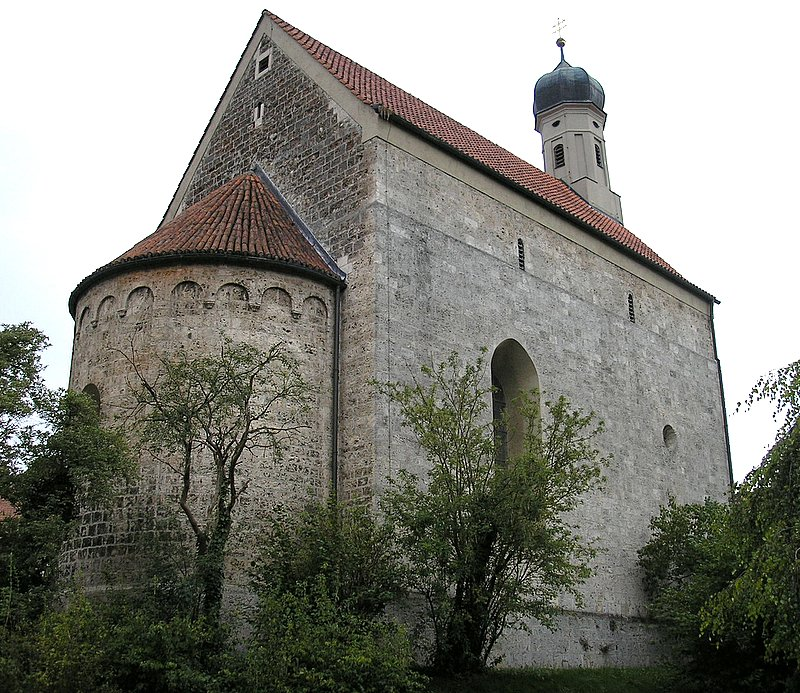 Exterior view of St. Jakobus in Schondorf am Ammersee, Bavaria, Germany